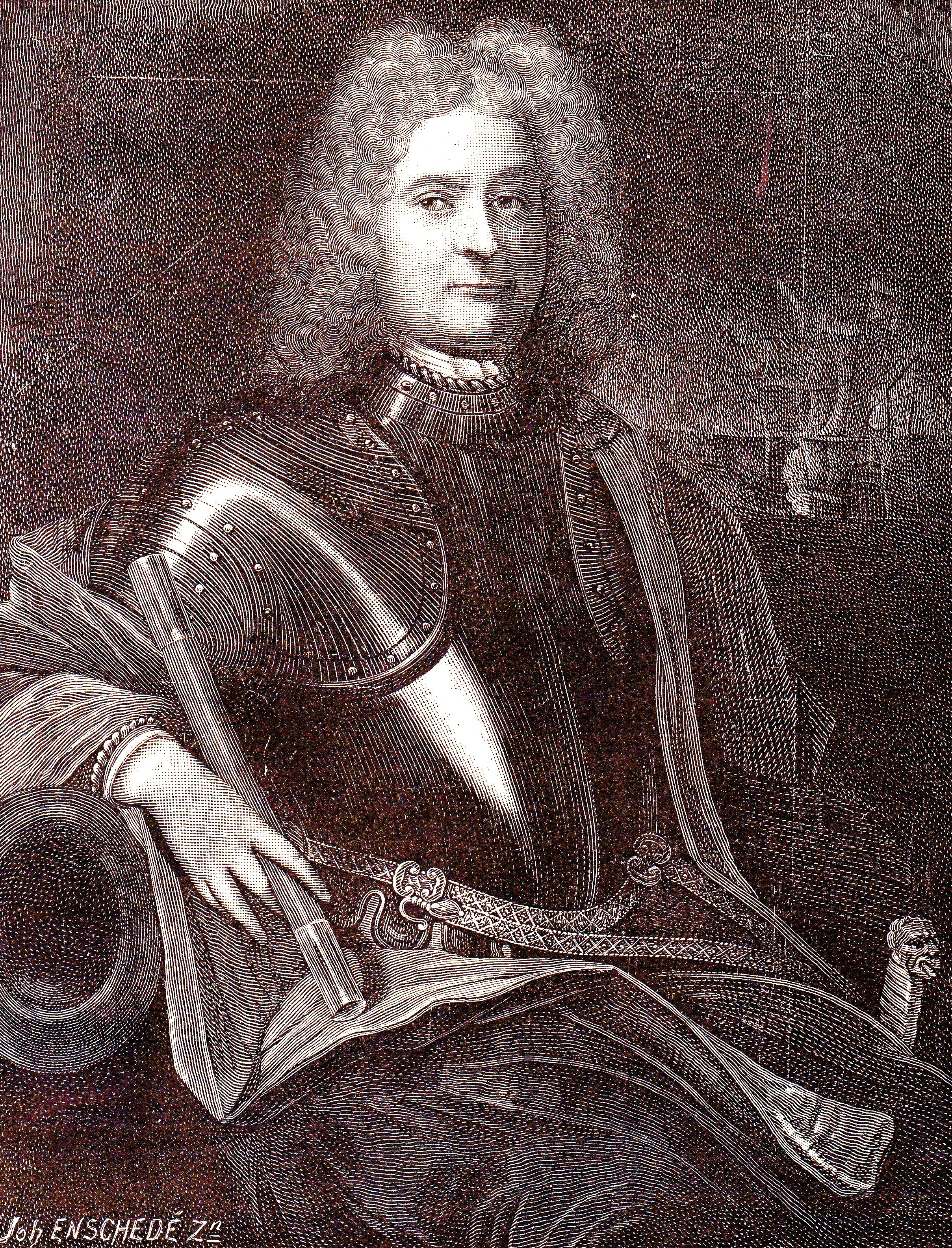 Admiraal Callenburgh